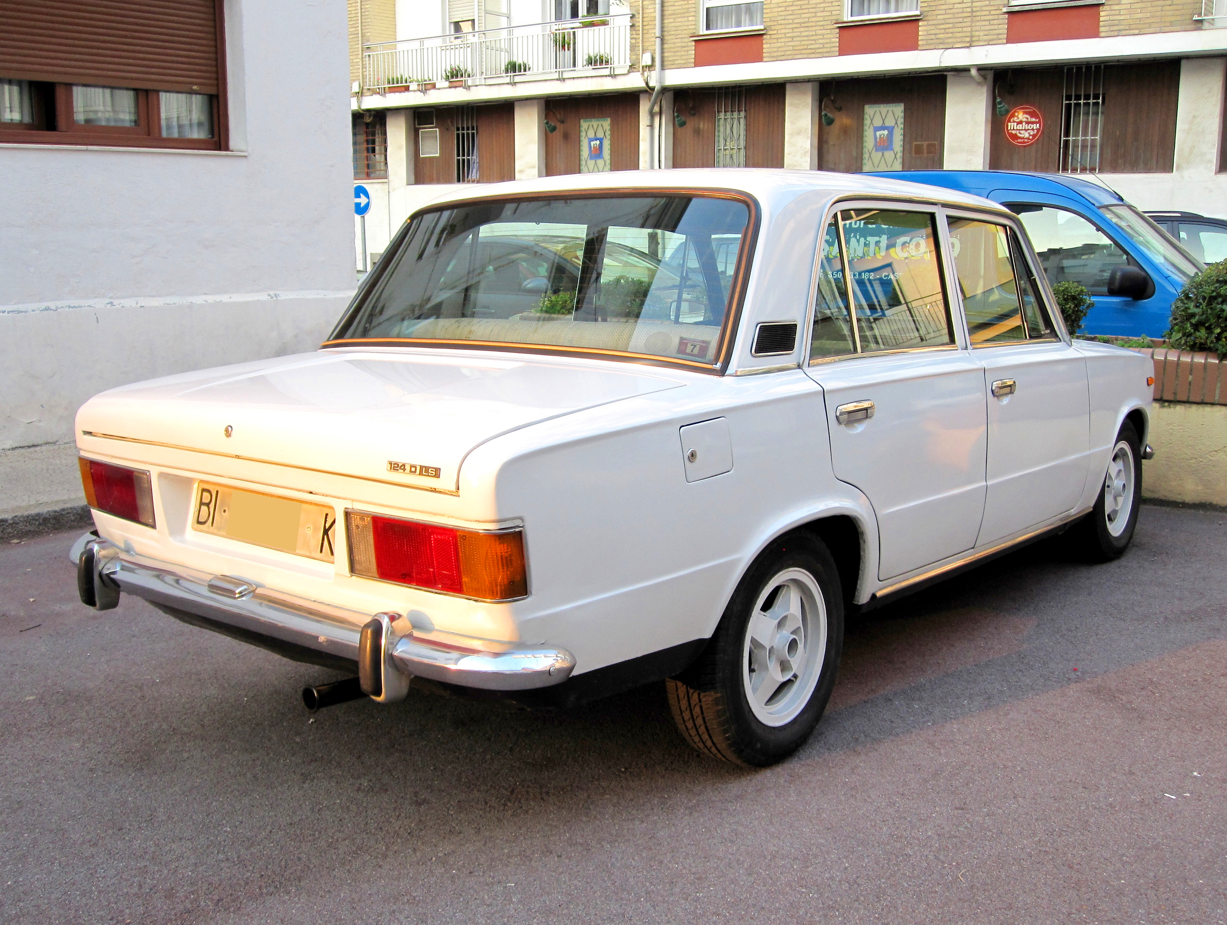 I pass by this street many times but I had never seen this 124 before. 1976 plates from Bilbao (Vizcaya) but seen in Castro Urdiales (Cantabria).